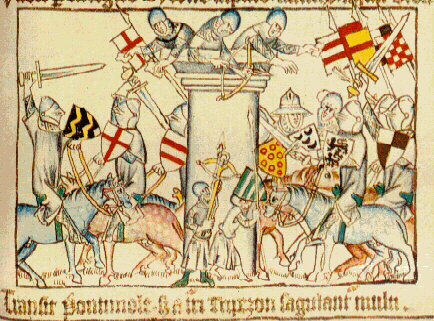 Codex Balduineus or Kaiser Heinrichs Romfahrt, folio 19b. Coats of arms displayed:[1] Lords of Geroldseck (Hohengeroldseck), Lords of Isenburg, Knights of Fleckenstein, Electorate of Trier, Counts of Hohenlohe, Castlecounts of Nürnberg/Counts of Zollern (Hohenzollern-Hechingen), Counts of Sponheim. The others are invented according to[1].